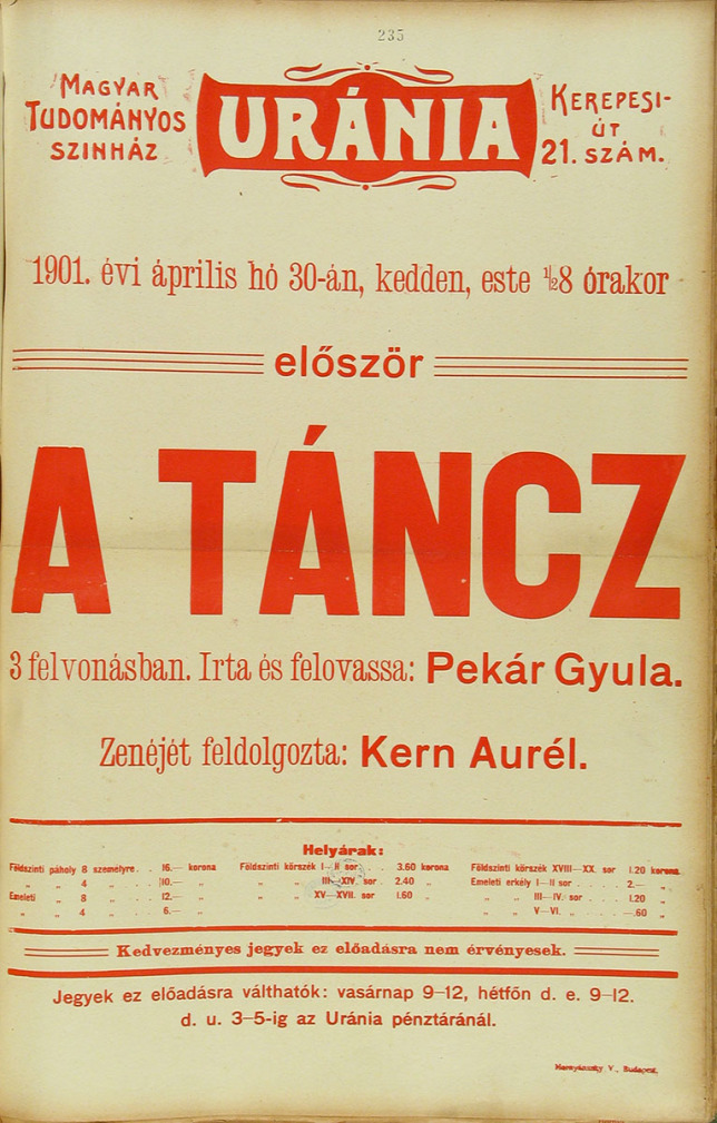 A táncz (The dance) film. Poster. The first Hungarian feature film was screened in Urania on April 30, 1901.